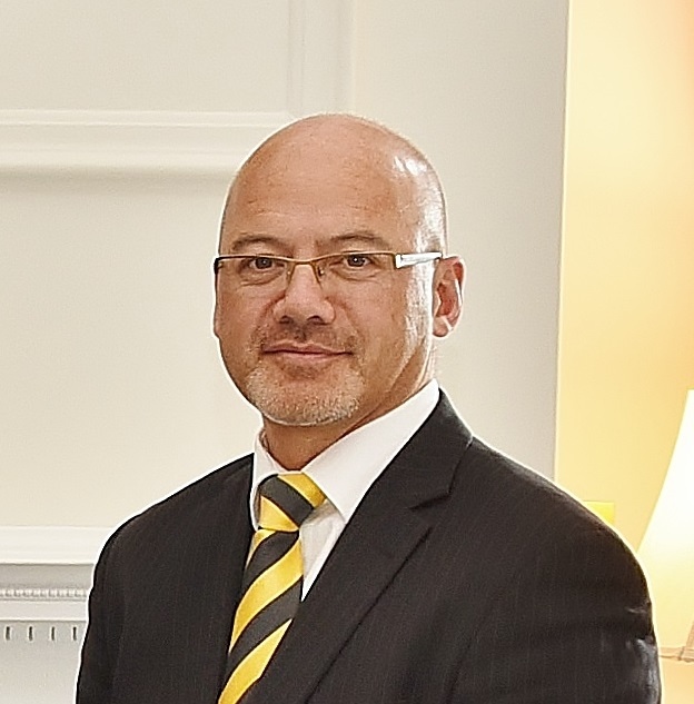 Maori land Court Judge Craig Coxhead at his swearing-in ceremony as Chief Justice of Niue, at Government House, Wellington, NZ, on 22 November 2018.